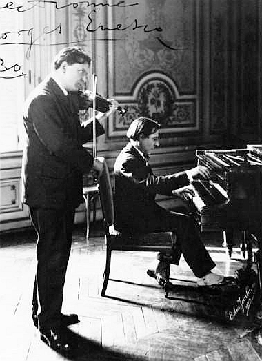 Violinist George Enescu (1881-1955) and pianist Alfred Cortot (1877-1962).